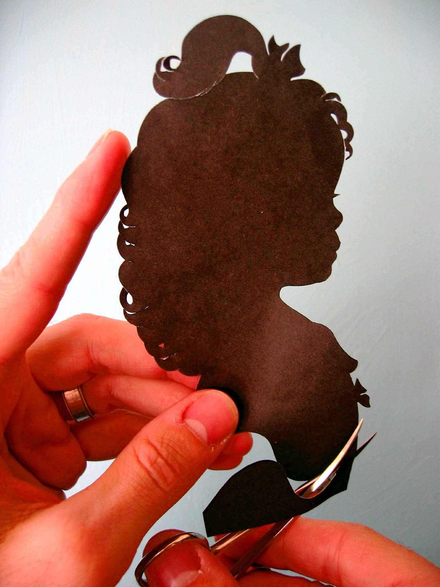 Hands cutting silhouette of girl Author Karl Johnson